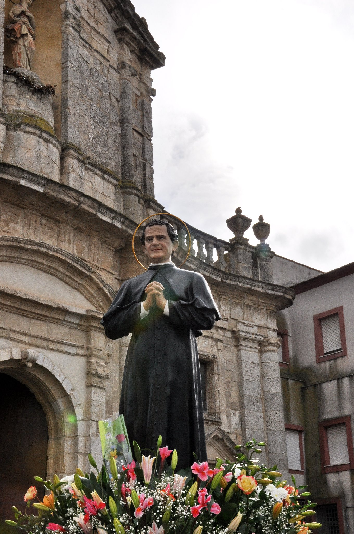 Don Bosco